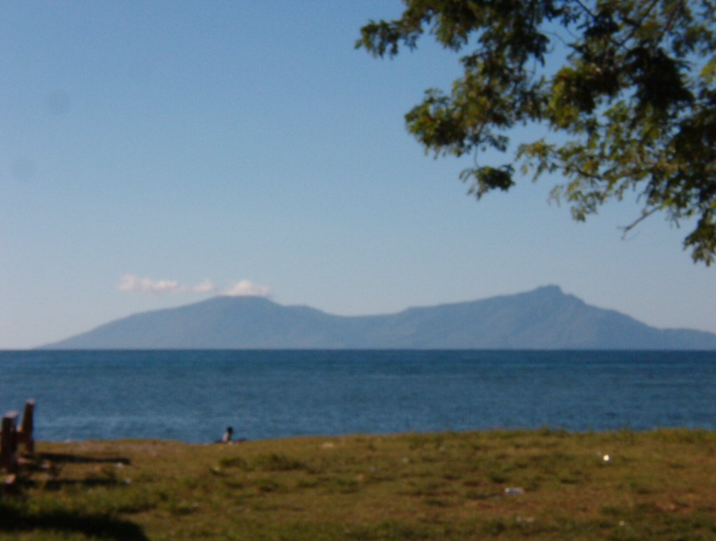 View looking across to Atauro. View looking at Atauro from Dili.